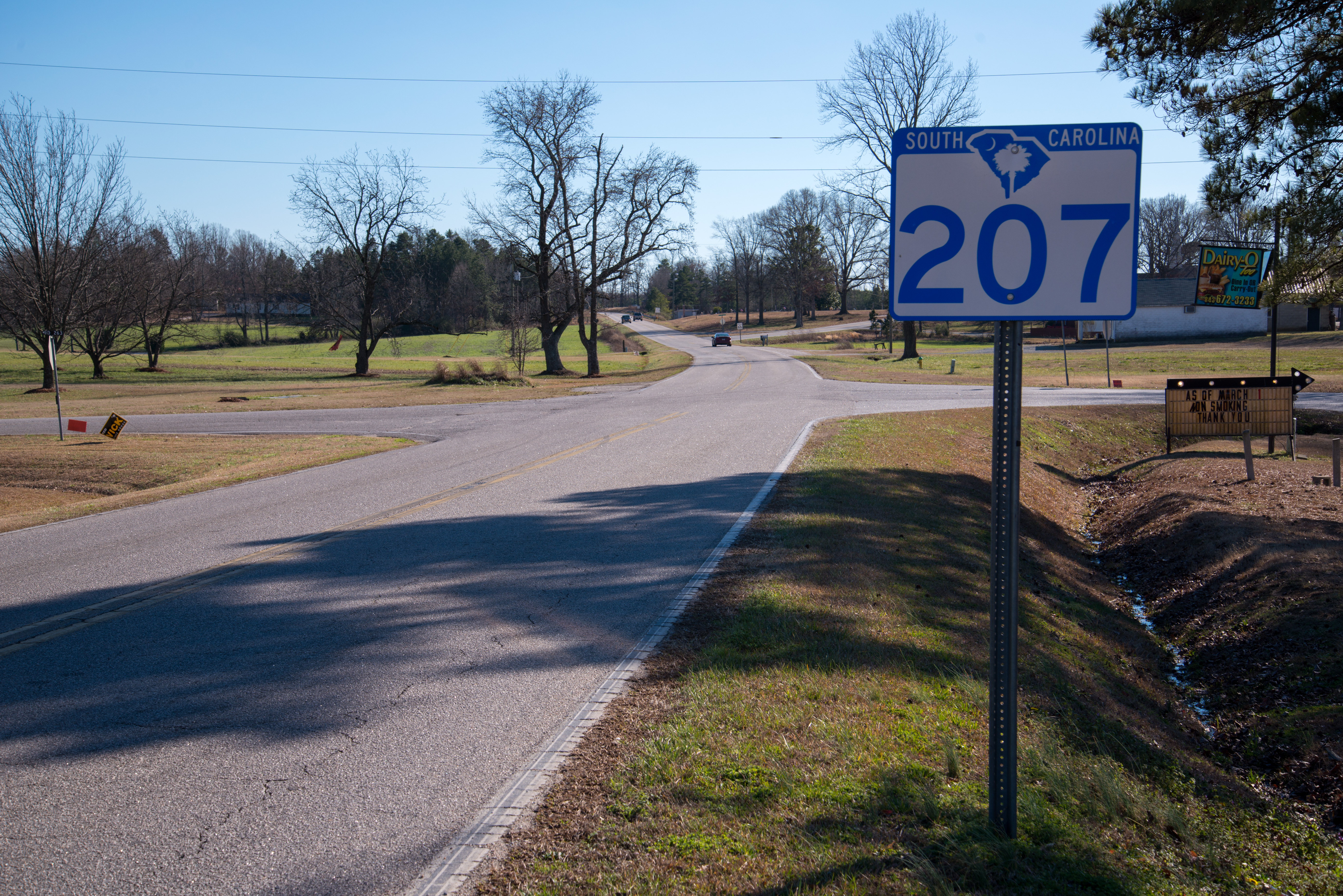 First sign of South Carolina Highway 207 after the state line in northwestern Chesterfield County.